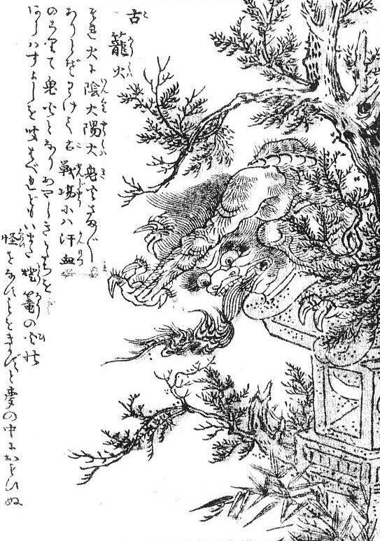 Korōka (古籠火, a Will-o'-the-wisp of an old garden lantern) from the Gazu Hyakki Tsurezure Bukuro (百器徒然袋)